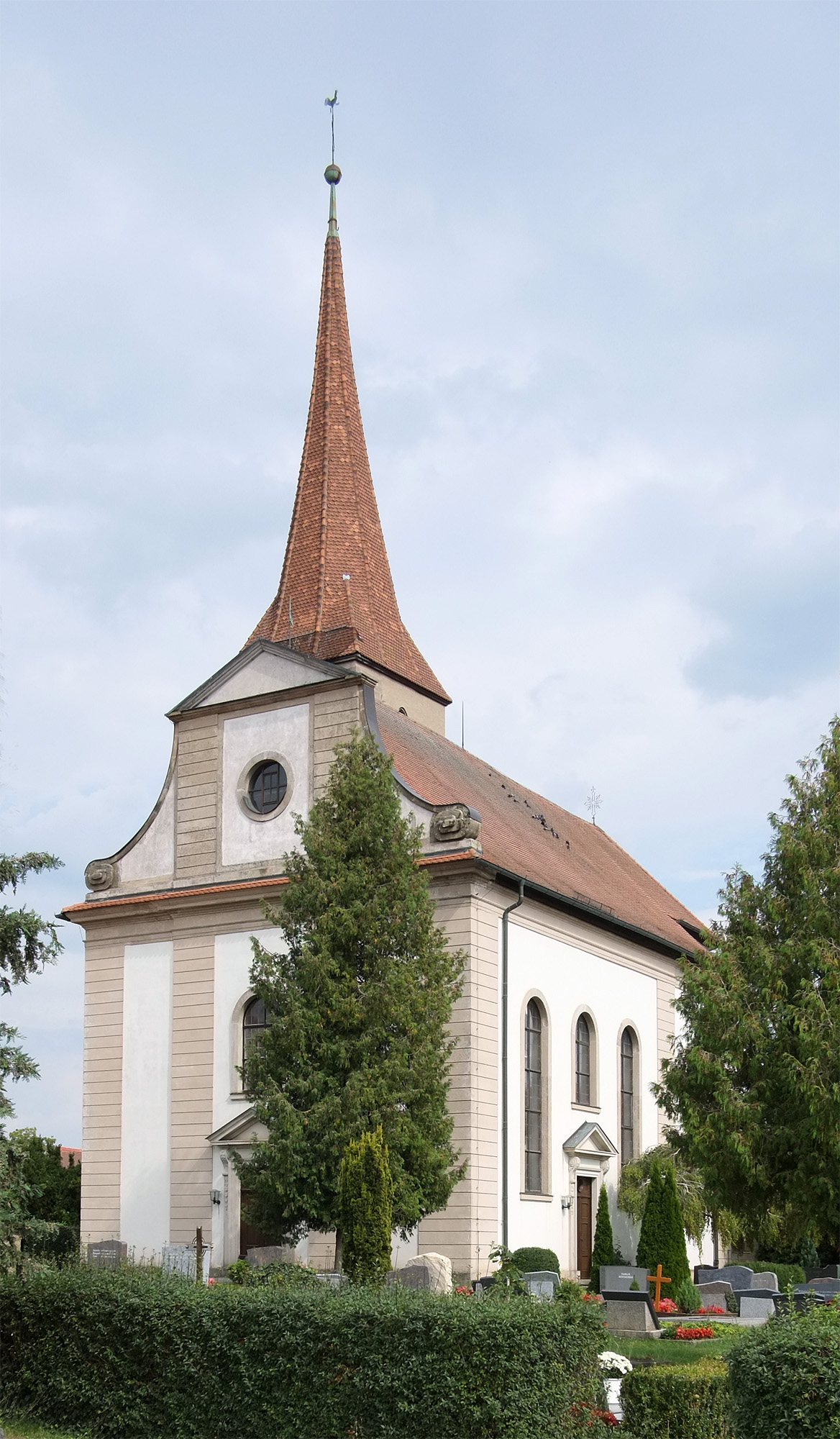 This is a photograph of an architectural monument.